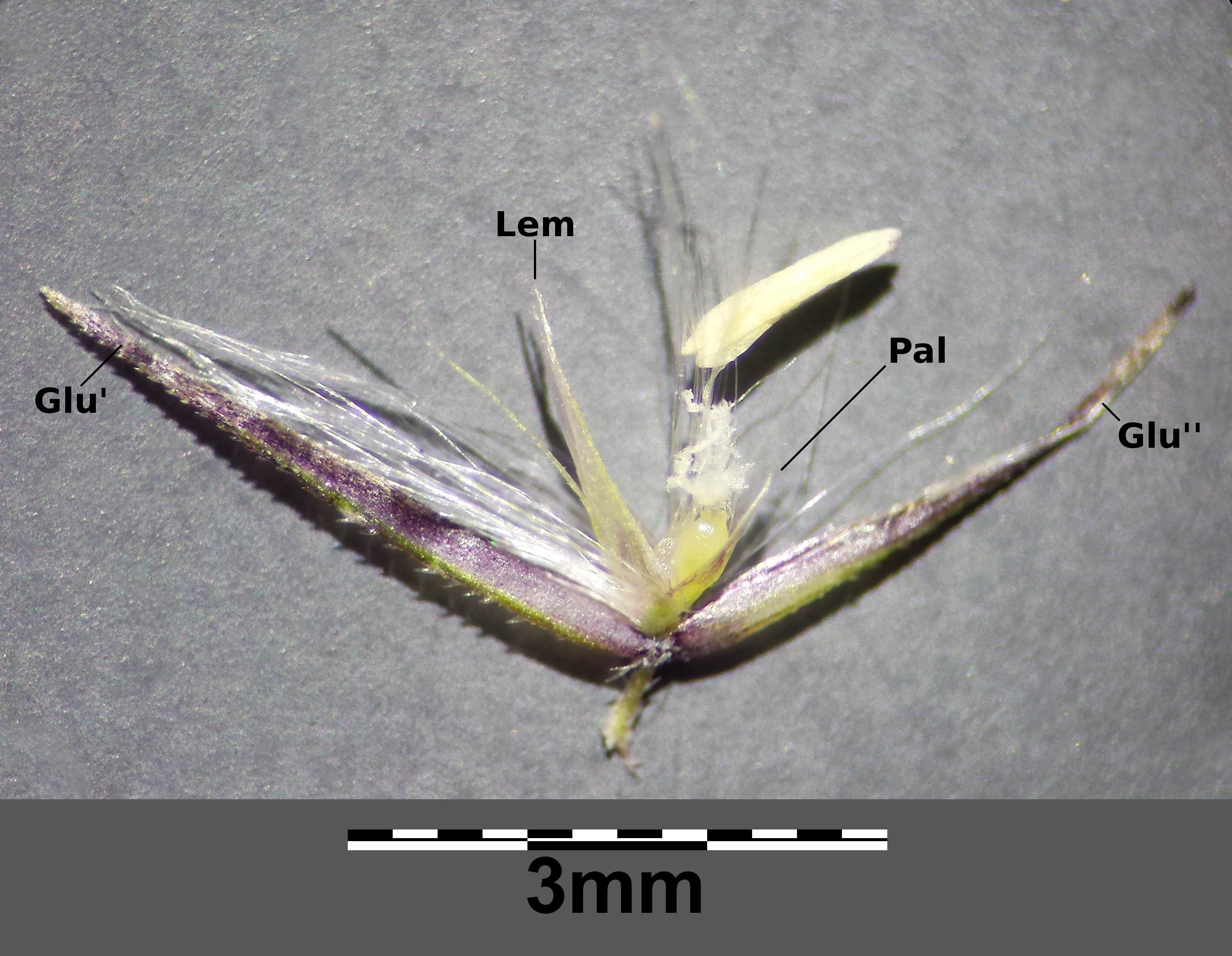 Spikelet Glu = Glumae Lem = Lemma with awn arising from the middle and hairs at ground Pal = Palea Taxonym: Calamagrostis epigejos ss Fischer et al. EfÖLS 2008 ISBN 978-3-85474-187-9 Location: Neue Donau, Vienna-Floridsdorf - ca. 160 m a.s.l. Habitat: shore